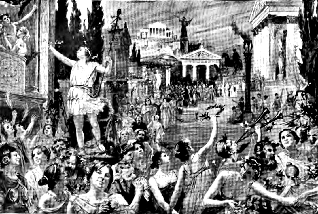 The Athenians celebrating the return of Pisistratus